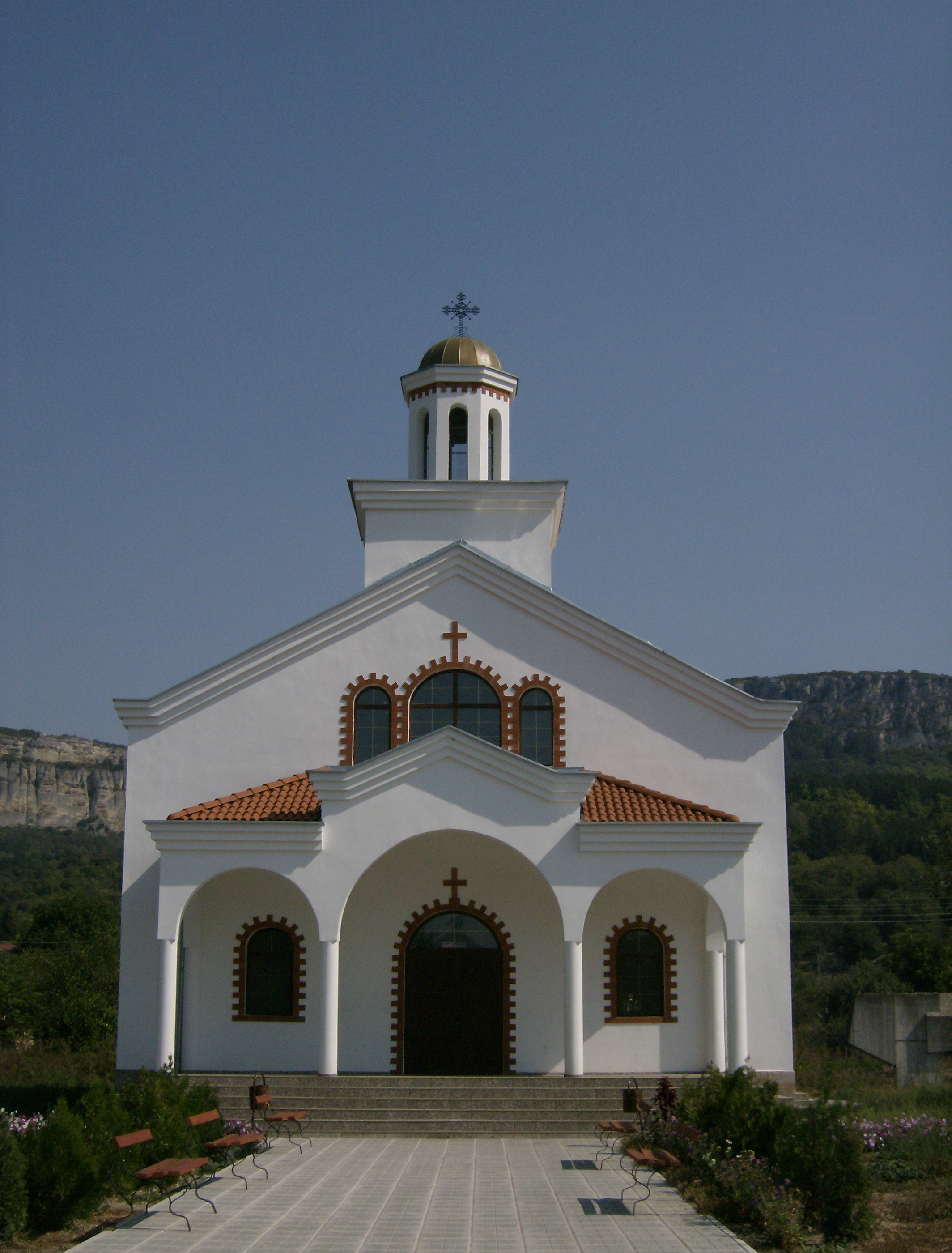 Orthodox Church in Madara, Shumen Province, Northeastern Bulgaria.